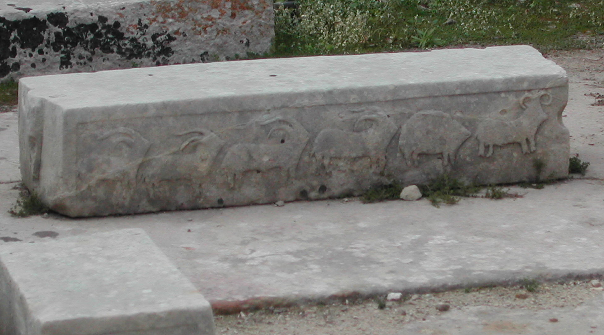 A replica of a relief showing goats and rams in one of the temples at Tarxien, Malta. Note however the second animal, which is a pig. The original is in the archeological museum in Valetta, Malta.